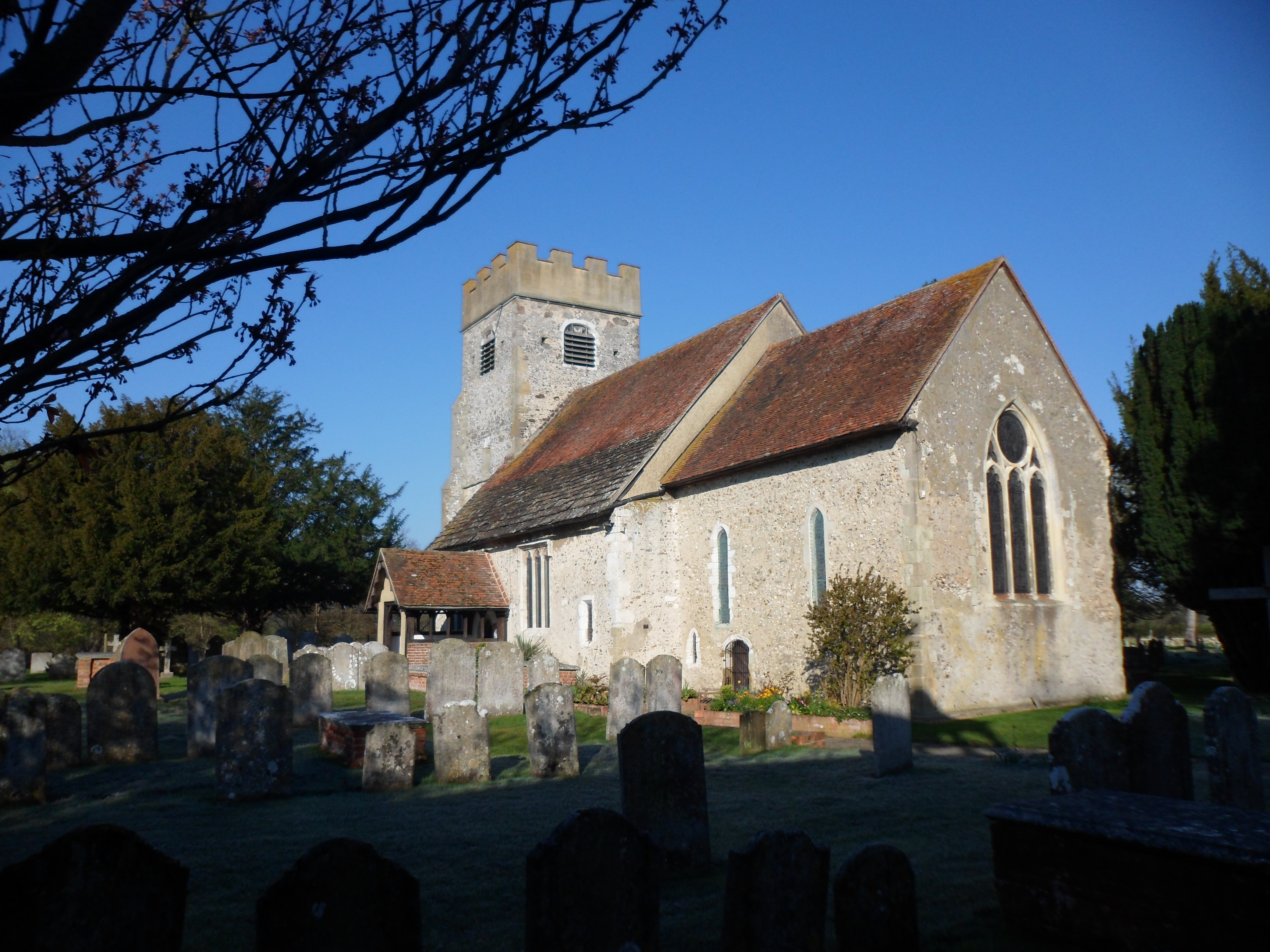 A photograph of 13th Century St Mary the Virgin Church in Send, Surrey, viewed from the south east.